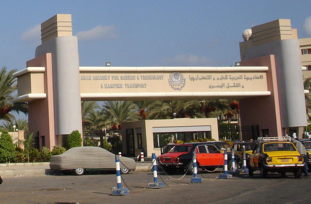 AAST at Abu Qir, Alexandria.